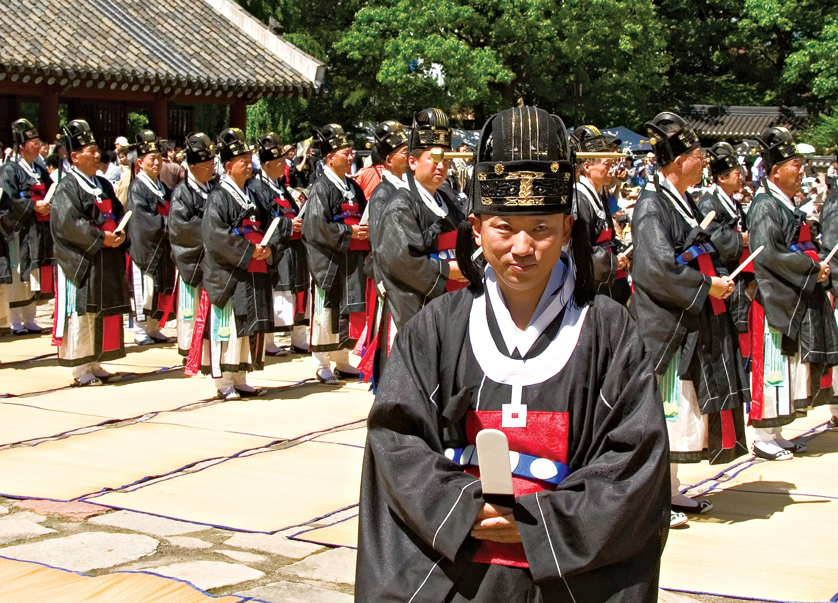 Descendents of the Jeonju Lee family perform rites to honor their ancestors in an annual ceremony the Korean government has declared an "important intangible cultural asset.